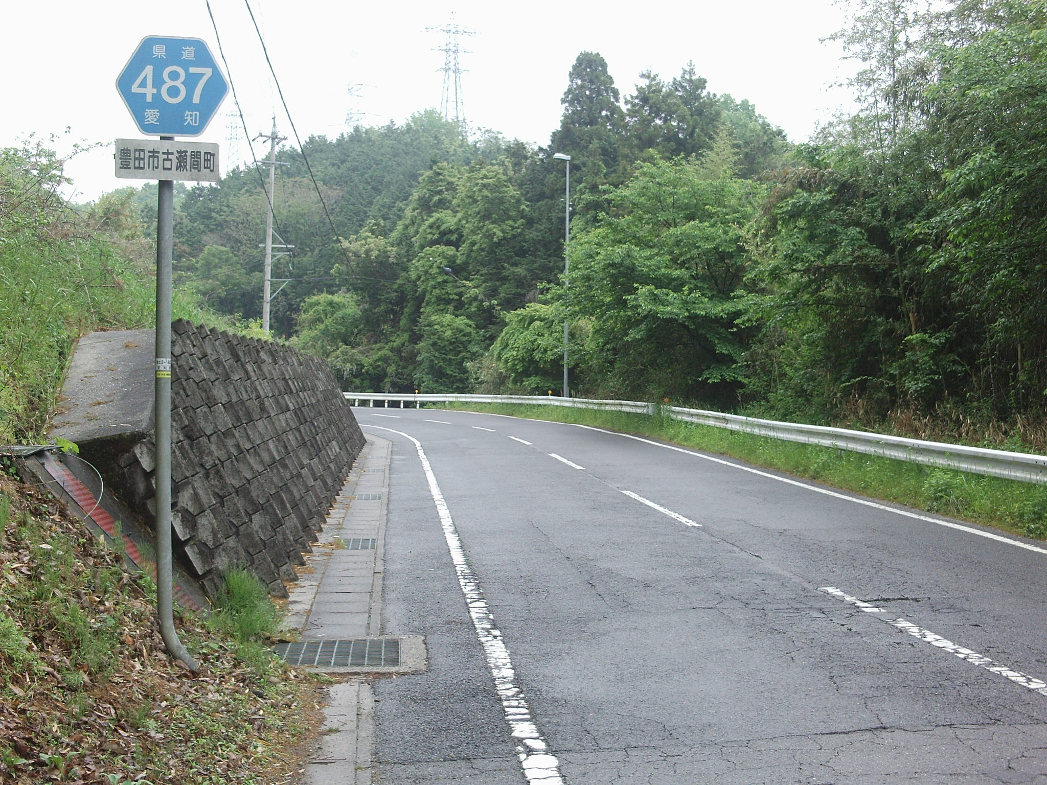 Aichi prefectural road No.487 in Kosemacho, Toyota, Aichi.